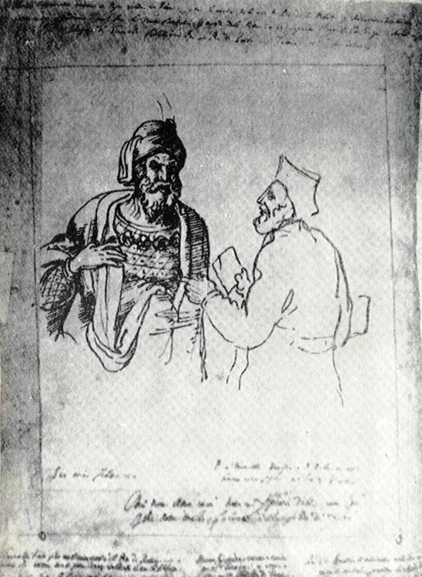 The Georgian king Teimuraz I talking with the Italian missionary Christofor di Castelli